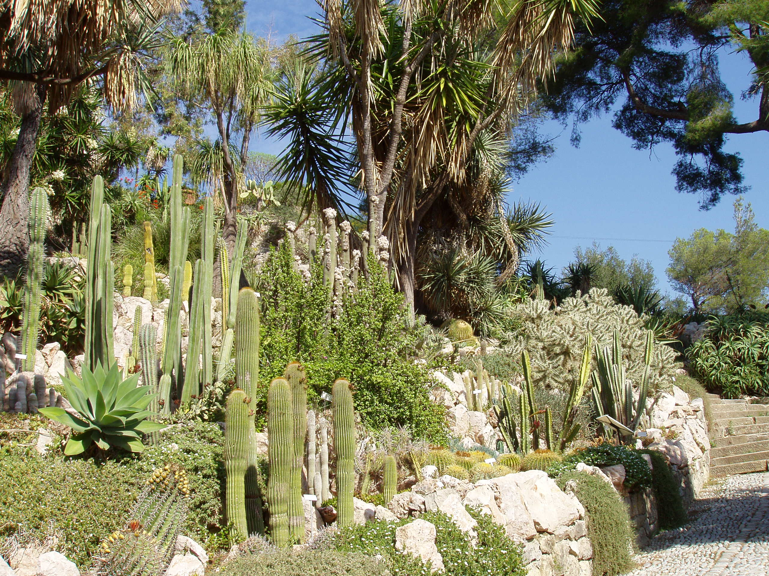 Giardini Botanici Hanbury - cacti. Mortola Inferiore, several km west of Ventimiglia, Italy.